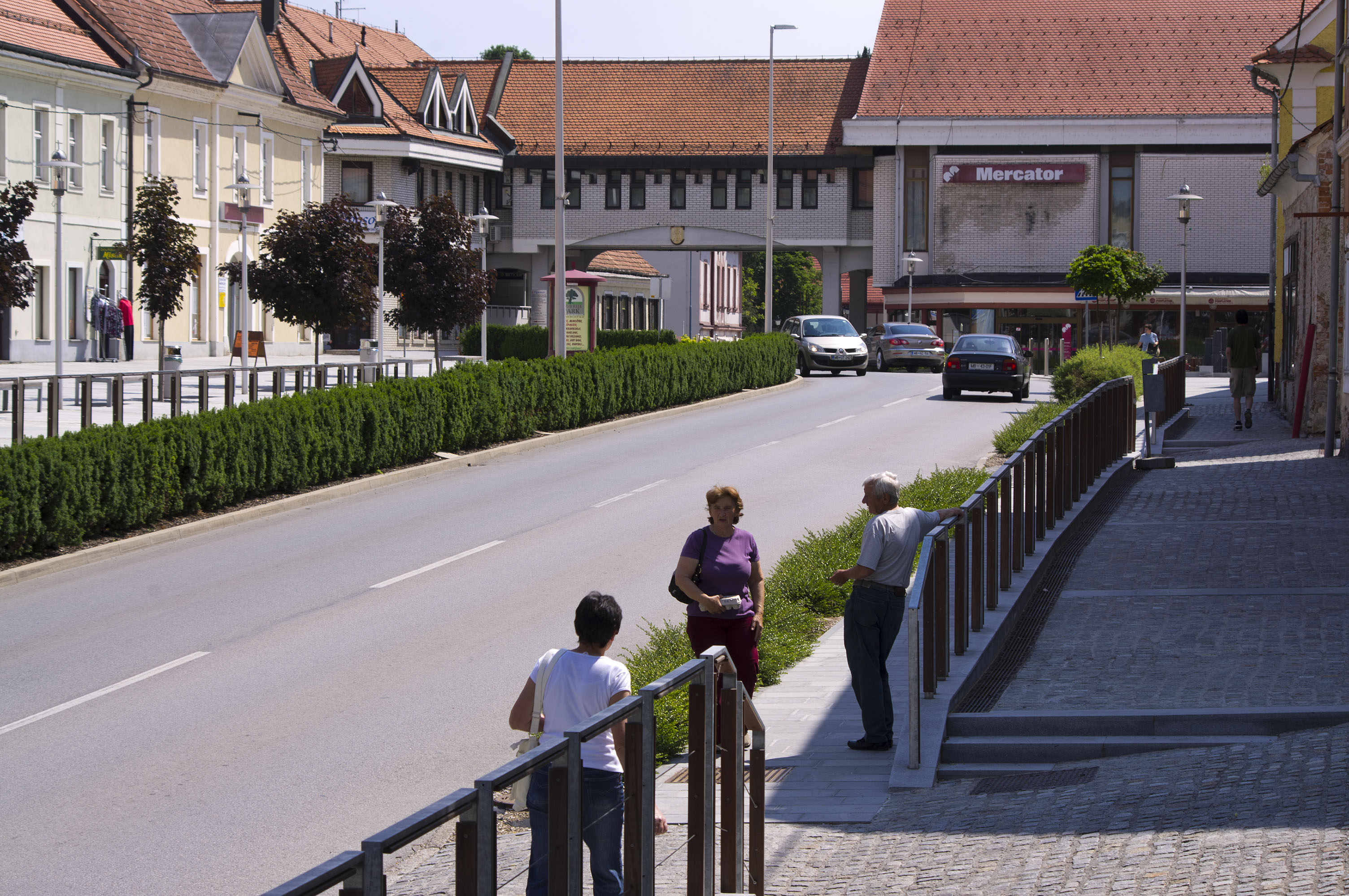 Ormož center, Kerenčičev trg, restavracija Center, Mostovž